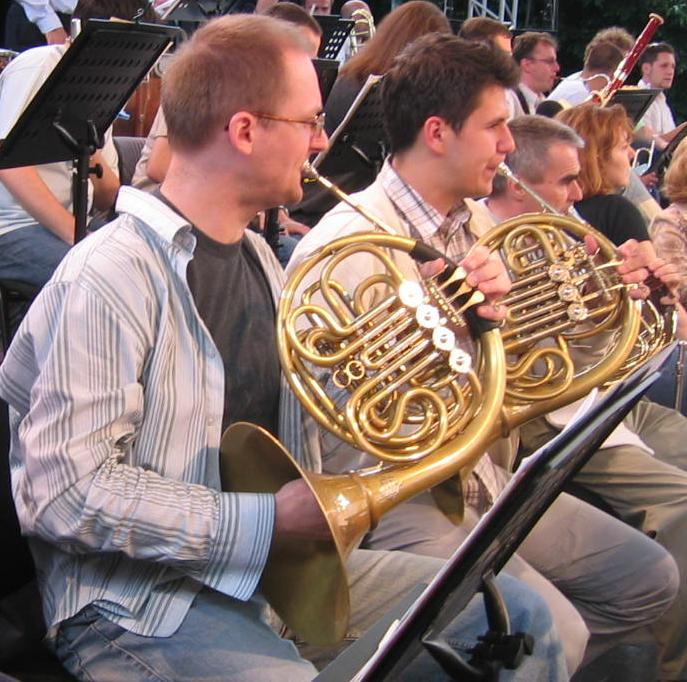 Horn players, from RTV Slovenia Symphony Orchestra rehersal